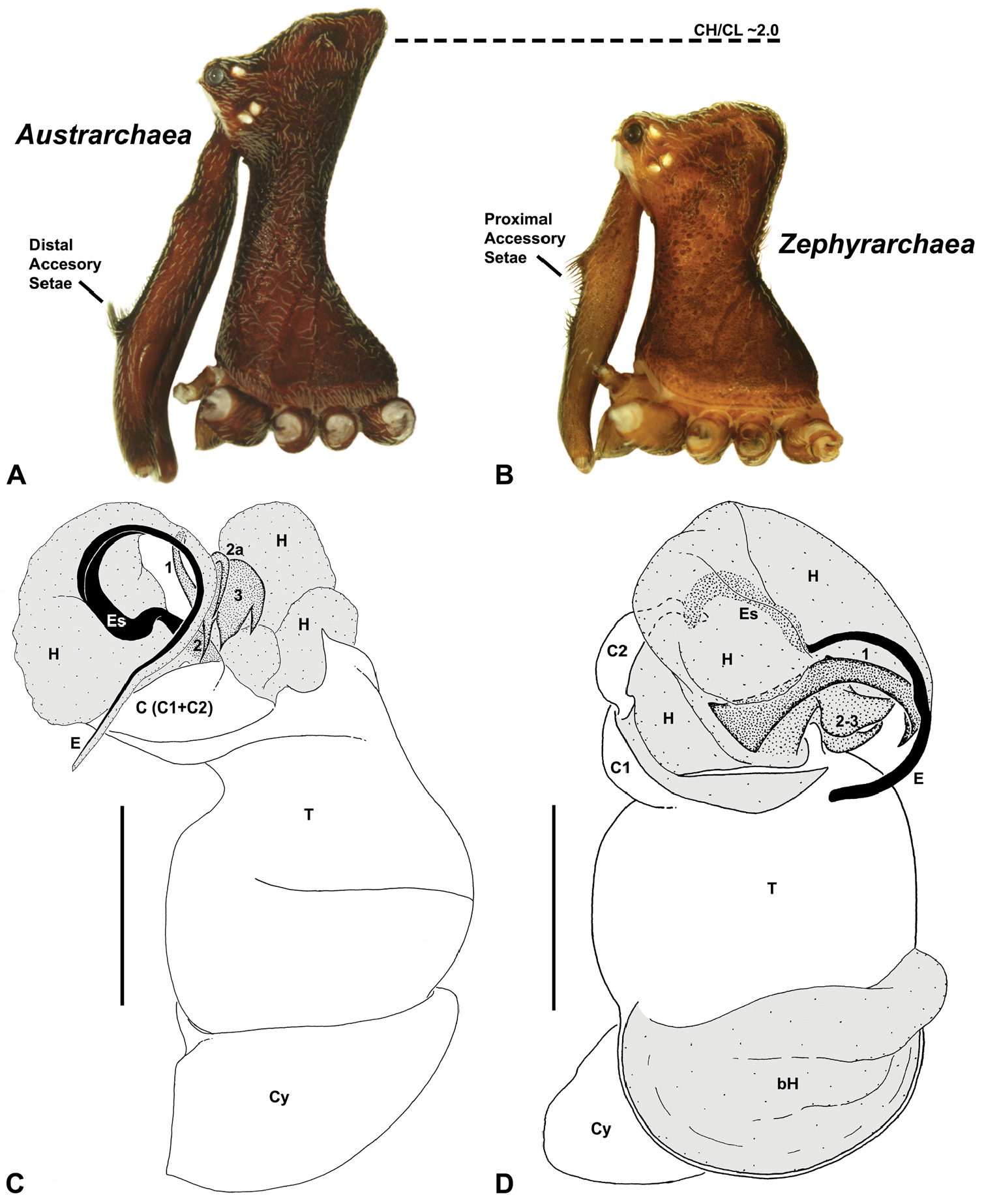 Diagnostic characters of Zephyrarchaea and Austrarchaea. A–B, Cephalothorax, lateral view, showing differences in carapace height and the position of accessory setae on male chelicerae: A, male Austrarchaea harmsi Rix & Harvey; B, male Zephyrarchaea marki C–D, Expanded male pedipalps, retro-ventral view, showing differences in the articulation and fusion of the conductor sclerites: C, Austrarchaea helenae Rix & Harvey; D, Zephyrarchaea marae bH = basal haematodocha; C = conductor; C1–2 = conductor sclerites 1–2; Cy = cymbium; E = embolus; Es = embolic sclerite; H = distal haematodocha; T = tegulum; (TS)1–3 = tegular sclerites 1–3. Scale bars: C–D = 0.2 mm.